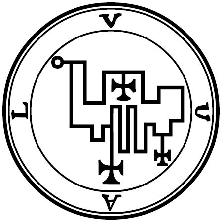 Vual seal, THE BOOK OF THE GOETIA OF SOLOMON THE KING (1904)